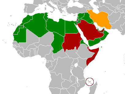 Iran & Arabian world Diplomatic relations